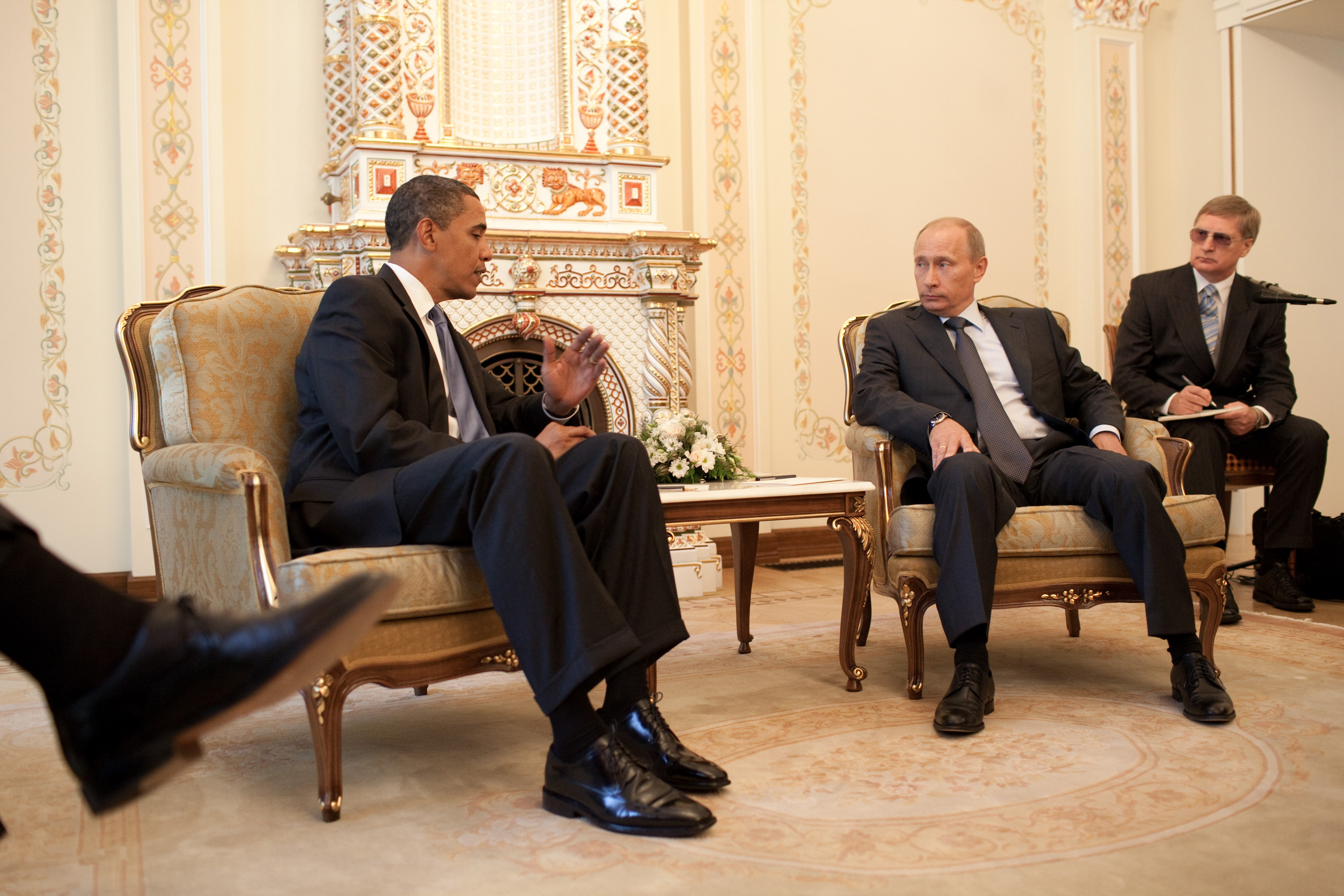 United States President Barack Obama meets with Russian Prime Minister Vladimir Putin at his dacha outside Moscow, Russia on 7 July 2009. (Official White House Photo by Pete Souza) This official White House photograph is in the public domain from a copyright perspective, so while restrictions such as personality or privacy rights may apply, in general, manipulations are allowed.